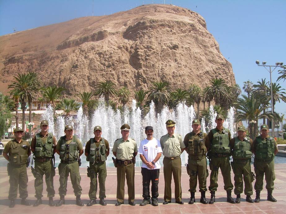 cdg